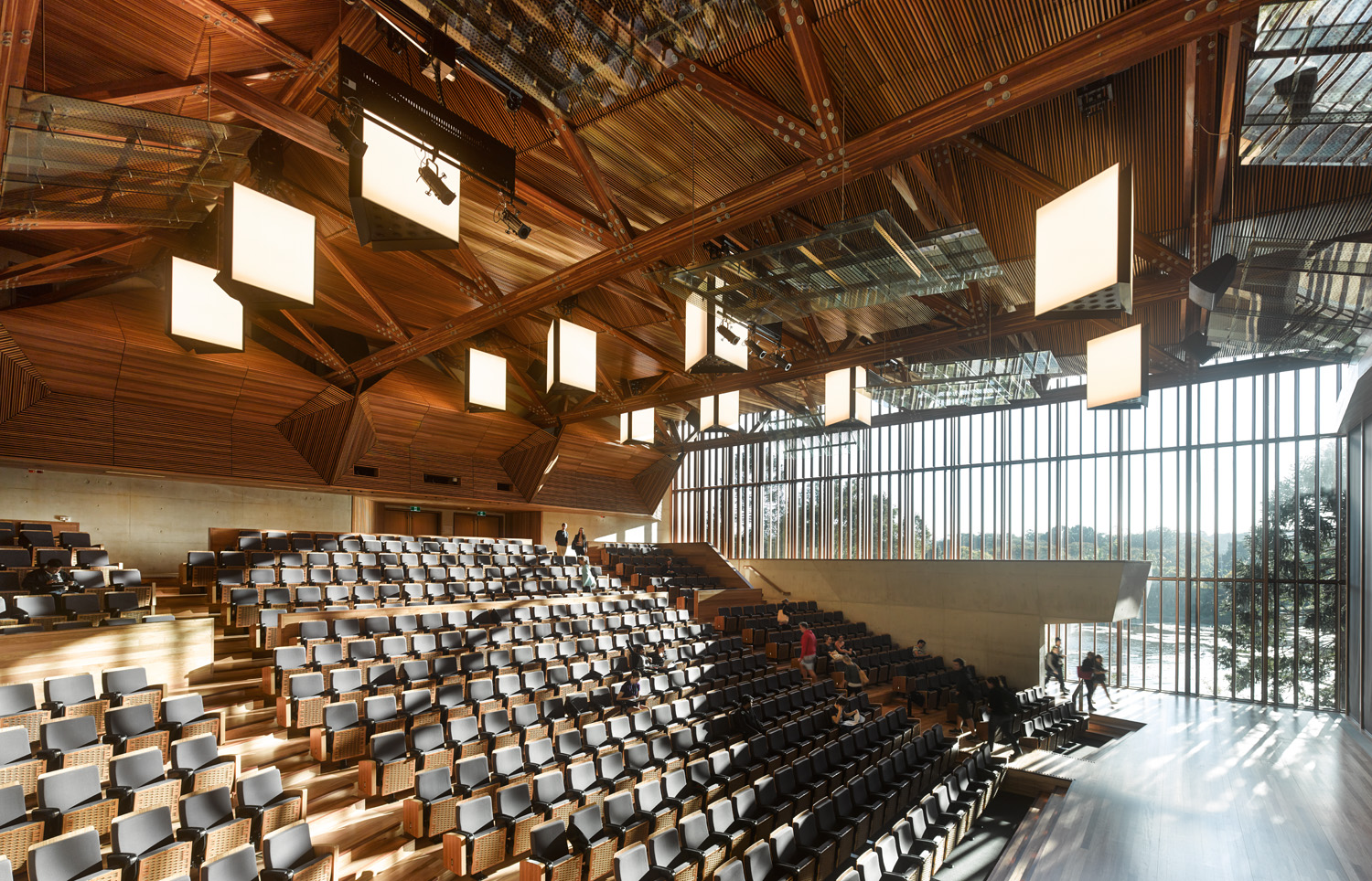 The Advanced Engineering Building Auditorium